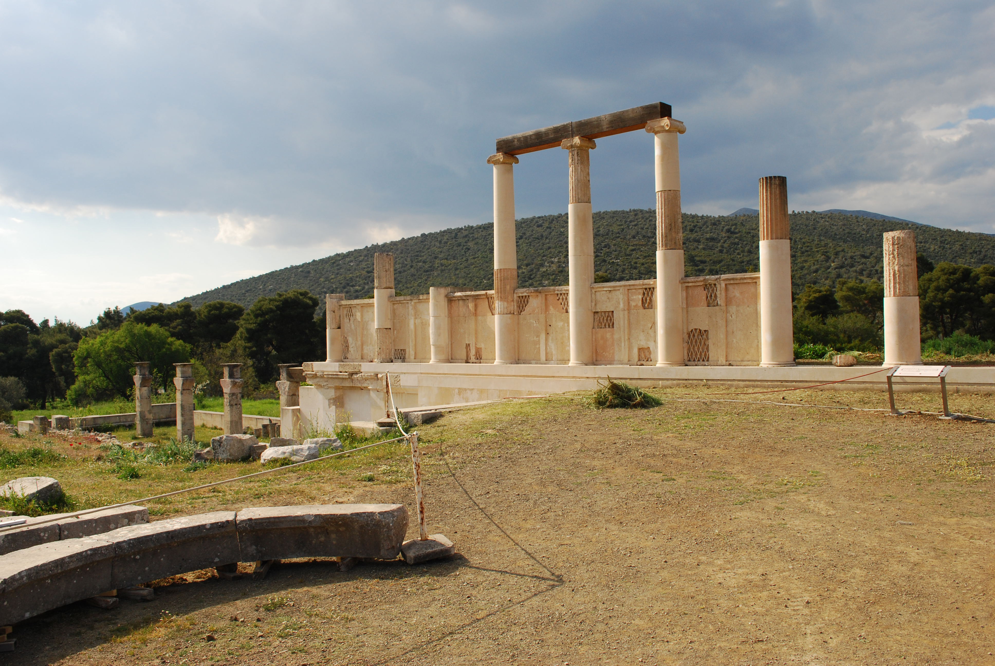 Abaton of Epidaurus, 2010